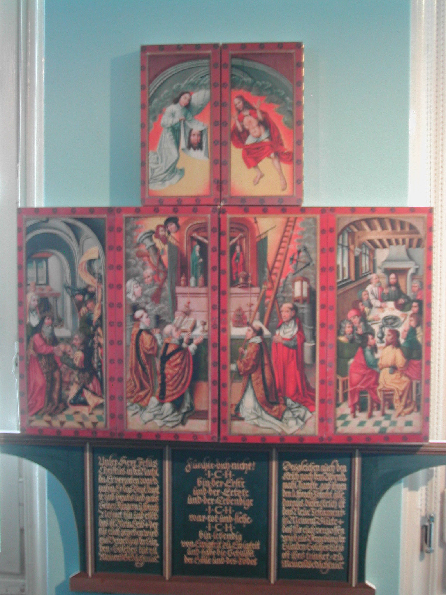 monastery Ihlow altar closed